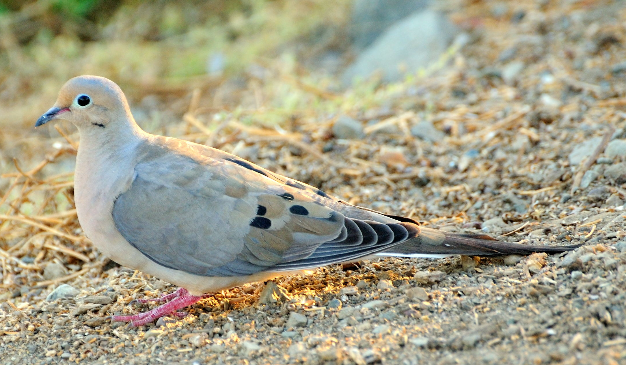 Mourning Dove, also called the American Mourning Dove or Rain Dove, and formerly was known as the Carolina Pigeon or Carolina Turtledove. Photograph at Almaden Lake Park, San Jose, California, USA.